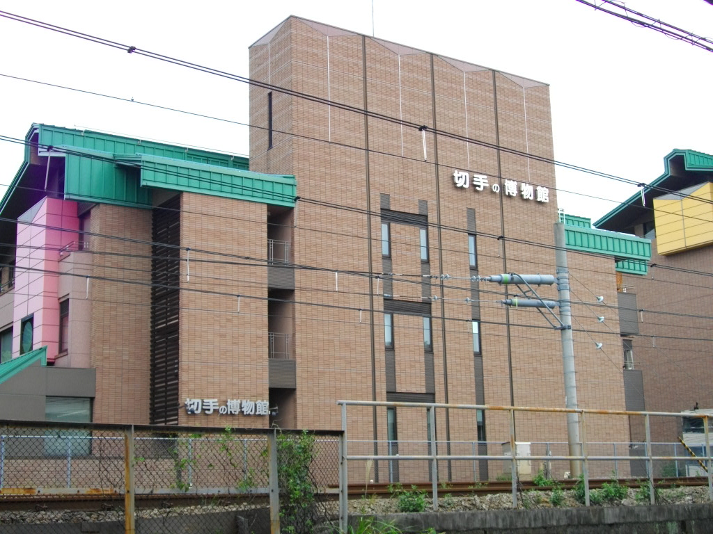 Kitte no Hakubutsukan(Philatelic Museum)